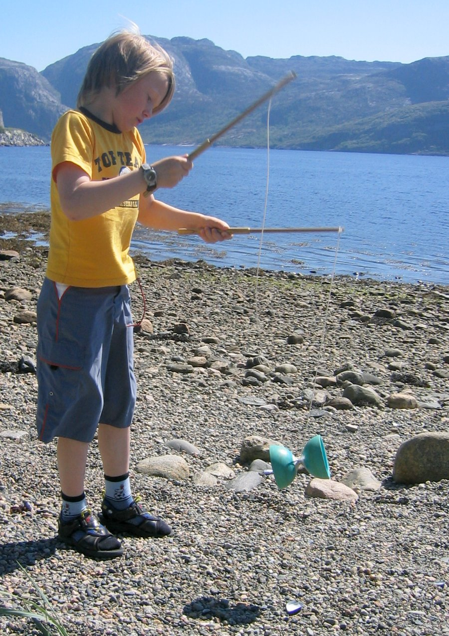 Jørund Faanes making more spin on a diabolo. Photographer: Einar Faanes Camera: Canon Ixus v3 Afterwork: Cutting and regulation of light and colour in the GIMP